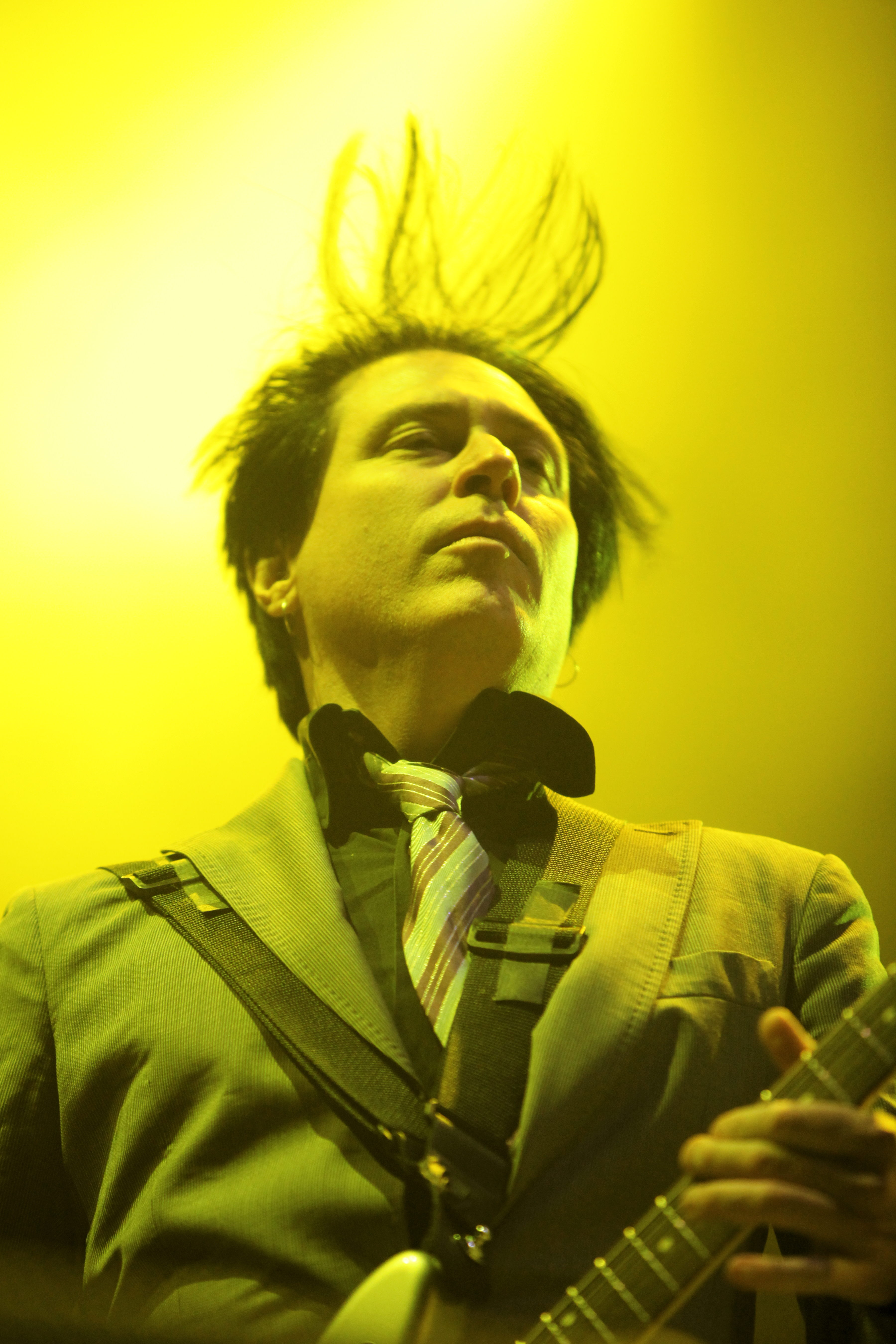 Troy Van Leeuwen with Queens of the Stone Age at the Eurockéennes de Belfort 2011 The making of this document was supported by Wikimedia CH. (Submit your project!) For all the files concerned, please see the category Supported by Wikimedia CH.